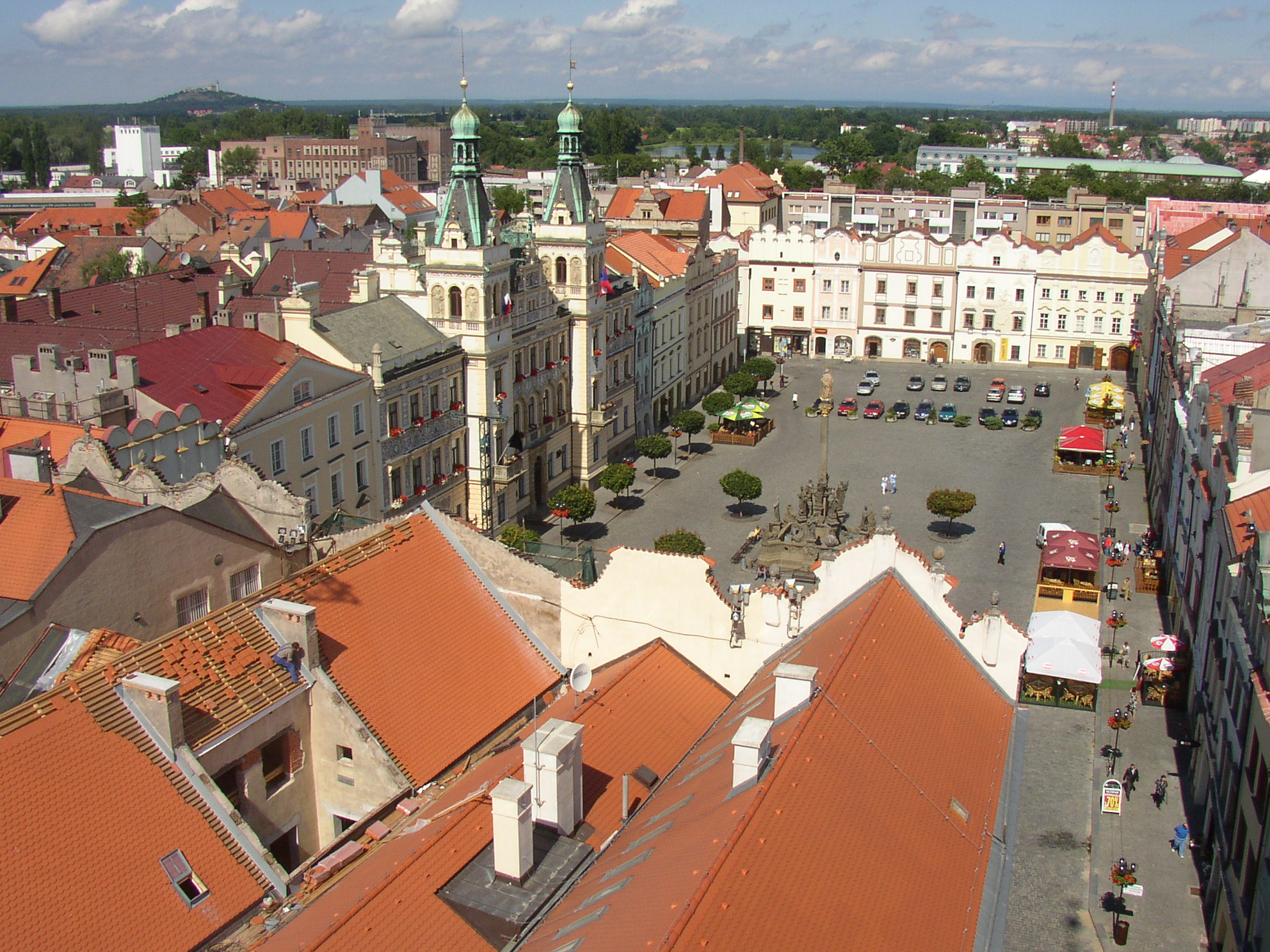 Pardubice, , Czech Republic. Pernštýnské náměstí (Pernštejn Square), a view from Zelená brána (The Green Gate Tower) towards northeast; in background (left) is the Kunětická hora hill with castle of the same name.